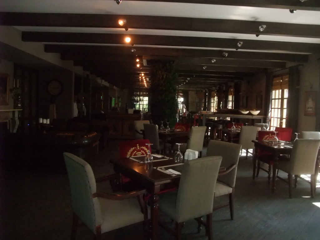 Nevzat Ozgorkey Equestrian Facilities inside